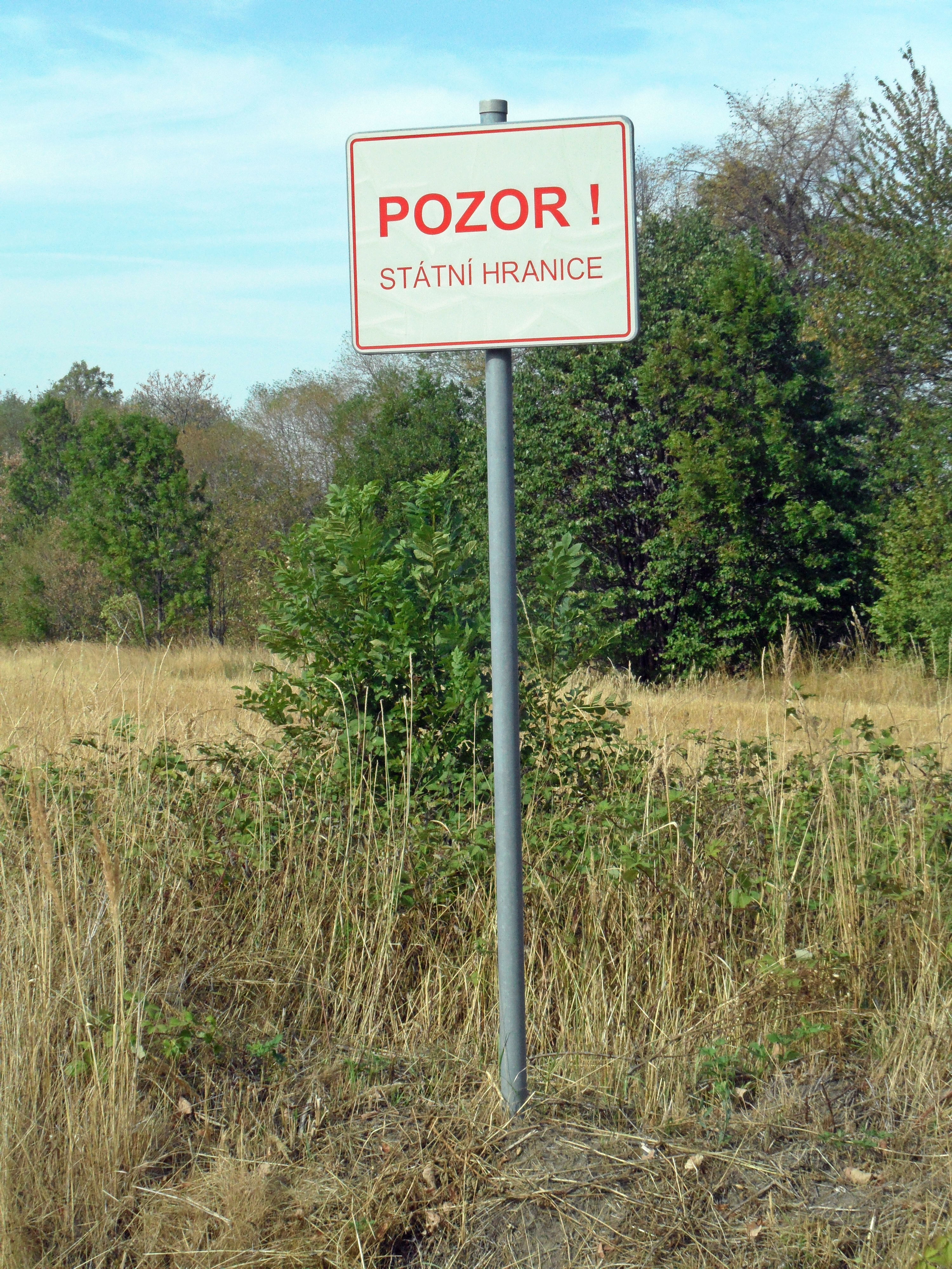 Kamenička (Bílá Voda)IJ. State Boarder is Just Next to Road. Jeseník District, the Czech Republic.